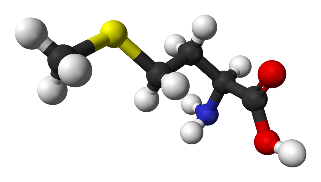 Ball-and-stick model of L-methionine, from viewpoint B